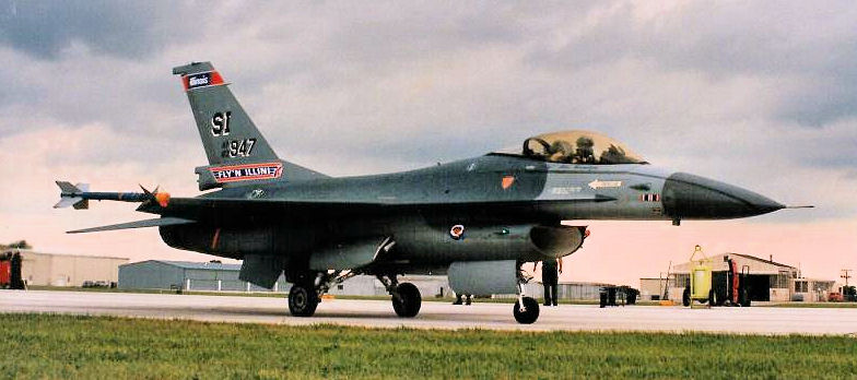 USAF F-16A block 15 #82-0947 from the 170th TFS is strolling past the camera at Quincy AP in 1991. Aircraft was retired to AMARC as FG0269 Oct 28, 1994. Still on AMARC inventory Jan 15, 2008 [Photo by MSgt. Dale Jensen]